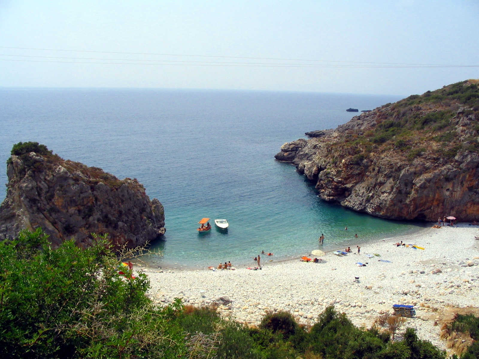 Beautiful bay on Peloponnes